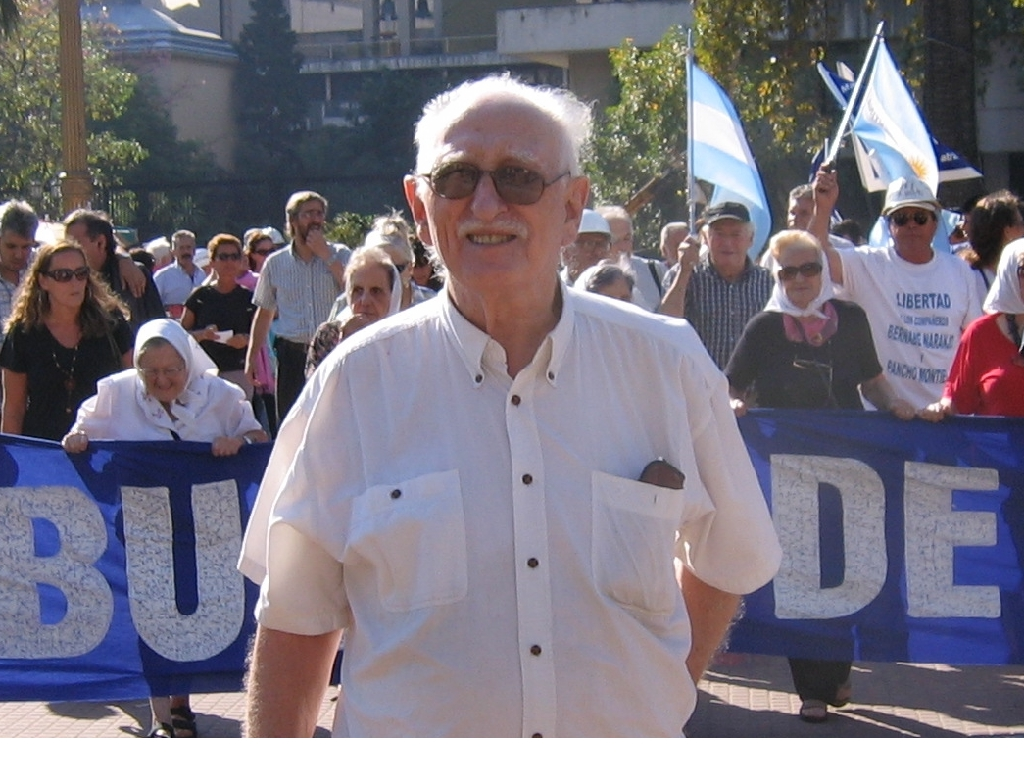 Photo original of Teodoro Kantor taken by Marcos Raijer